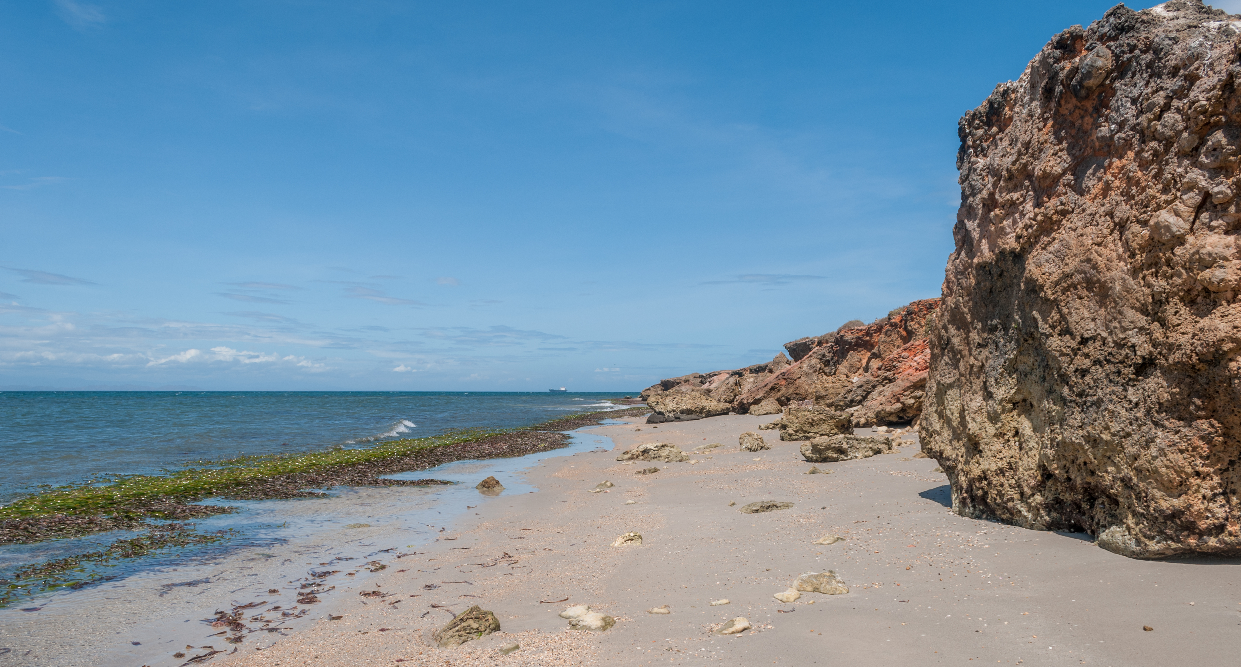 Thalassia testudinum in El Manglillo Bay, Margarita Island